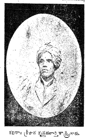 Famous Telugu personality